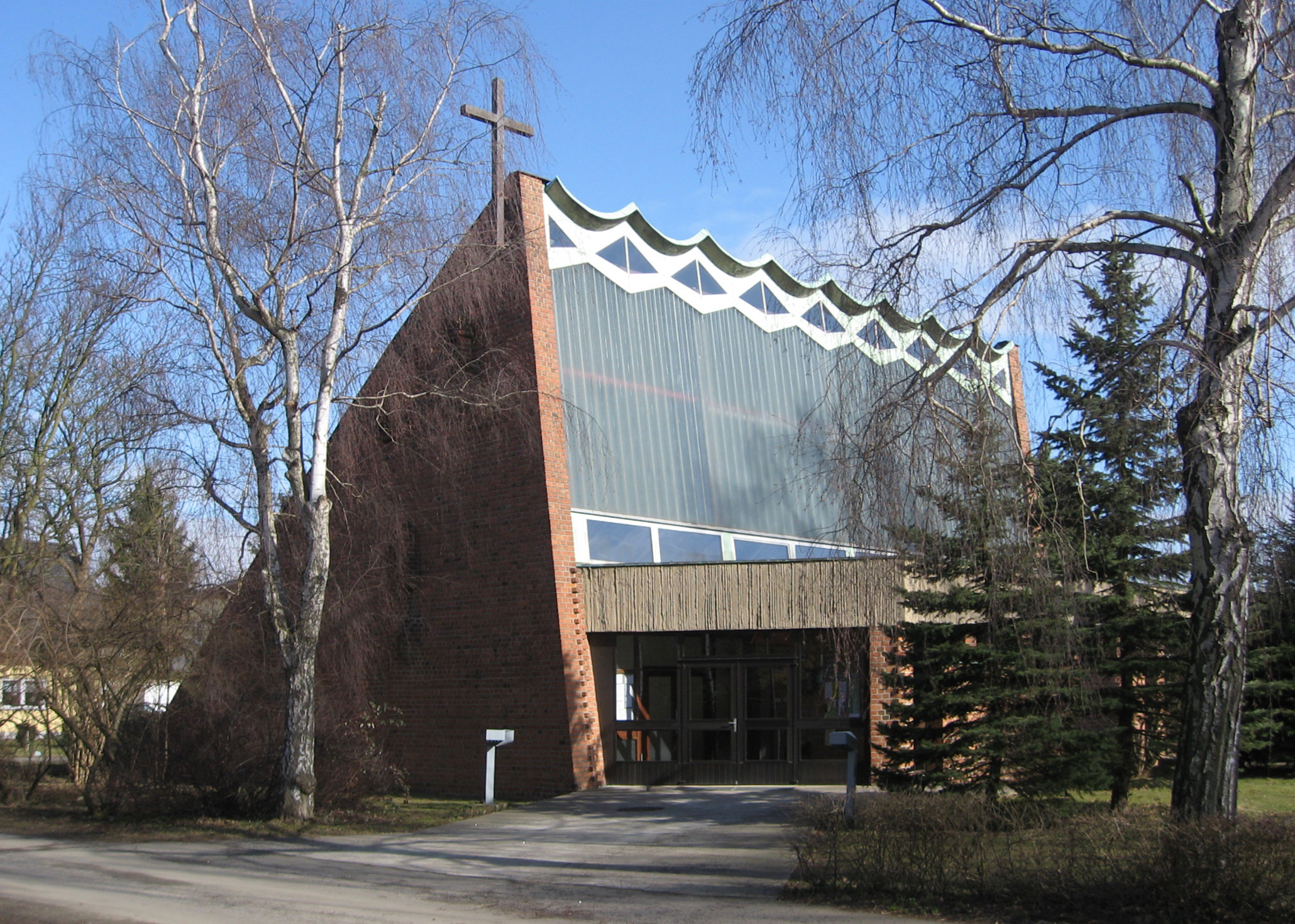 Roman Catholic St. Gabriel's Church in Leipzig-Wiederitzsch, Georg-Herwegh-Strasse 7